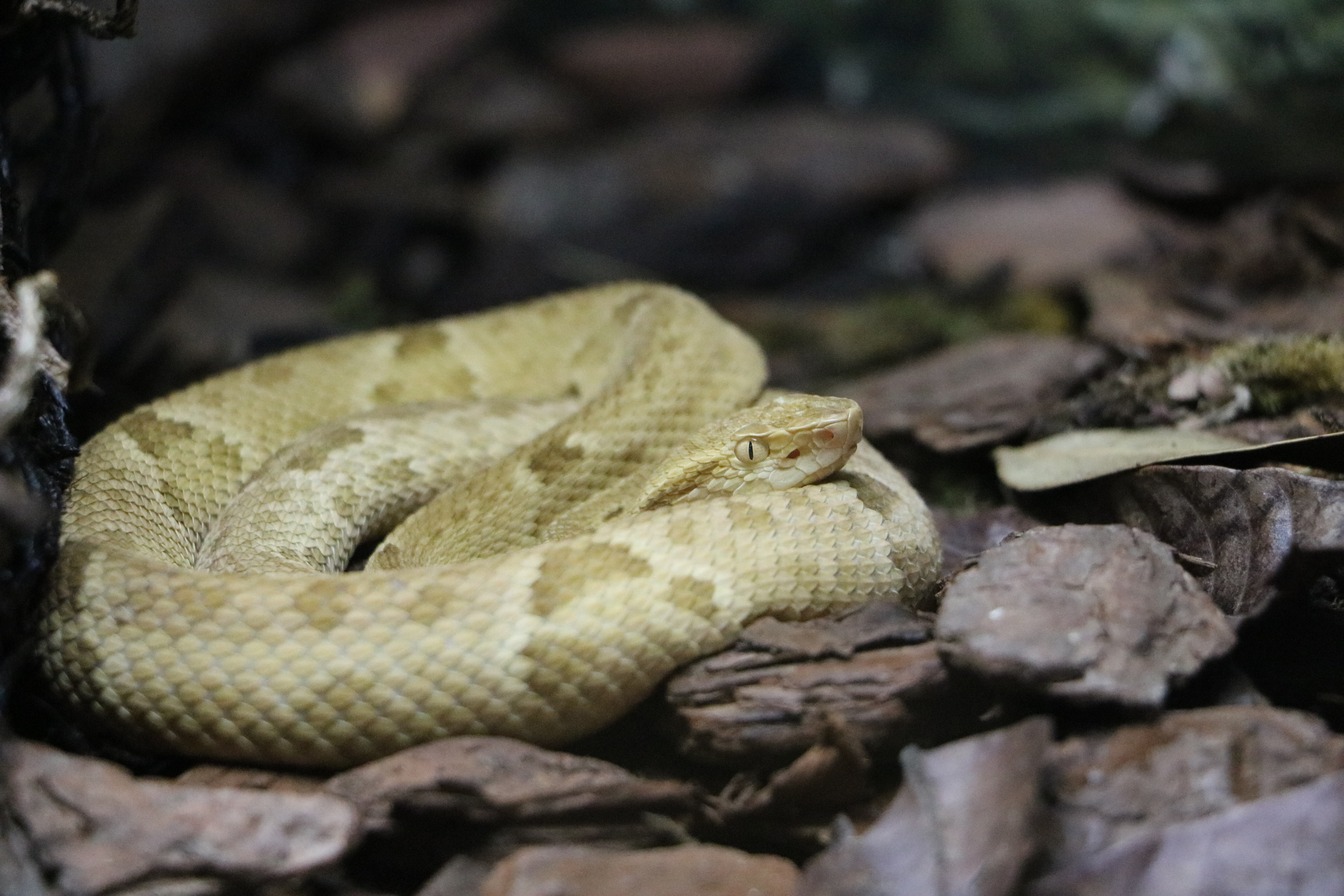 A golden lancehead viper held in the Biological Museum, Instituto Butantan.